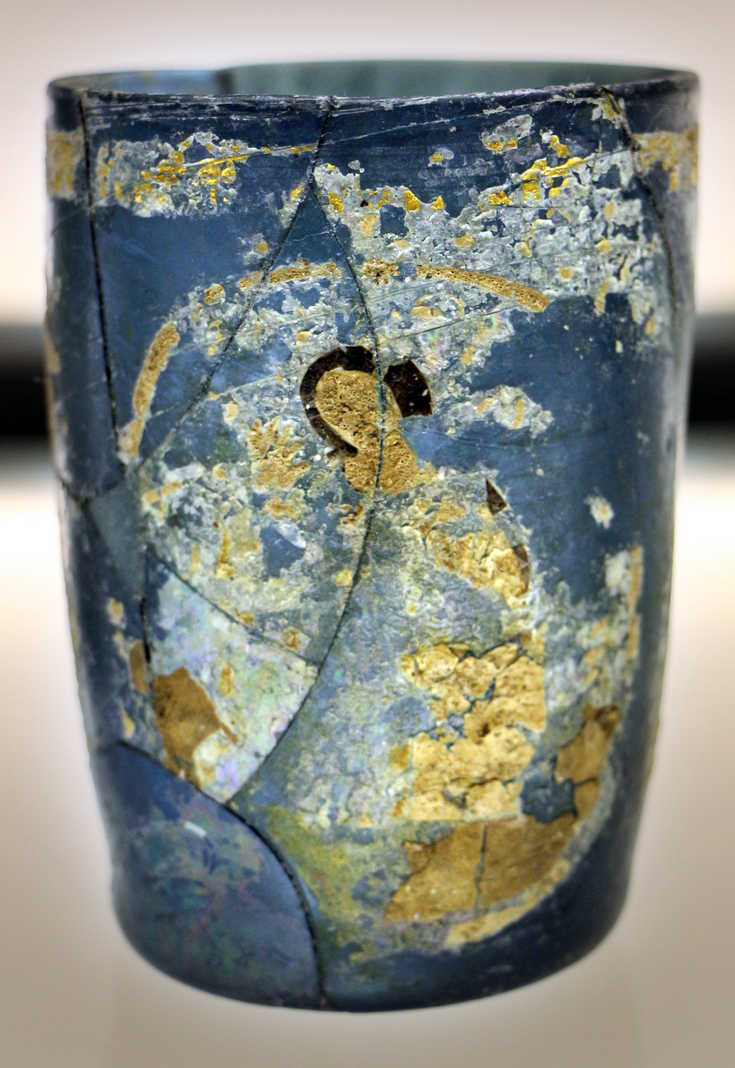 Restituzioni 2016